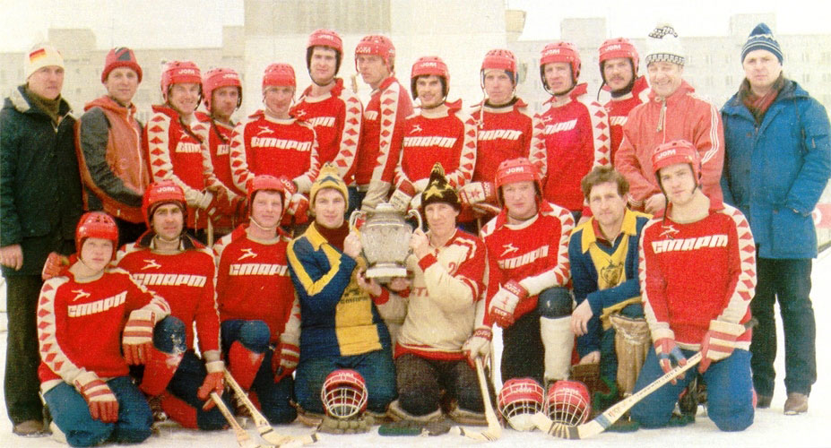 Photo bandy team "START" winner of the USSR Cup 1983